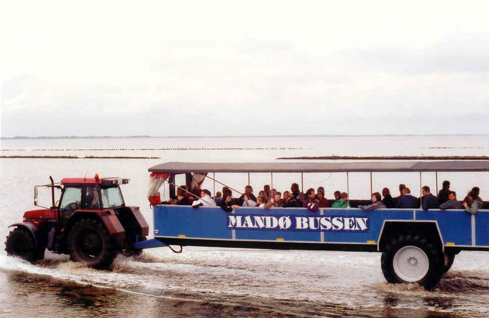 Mandø Bussen – Mudflat transport with a tractor in Denmark